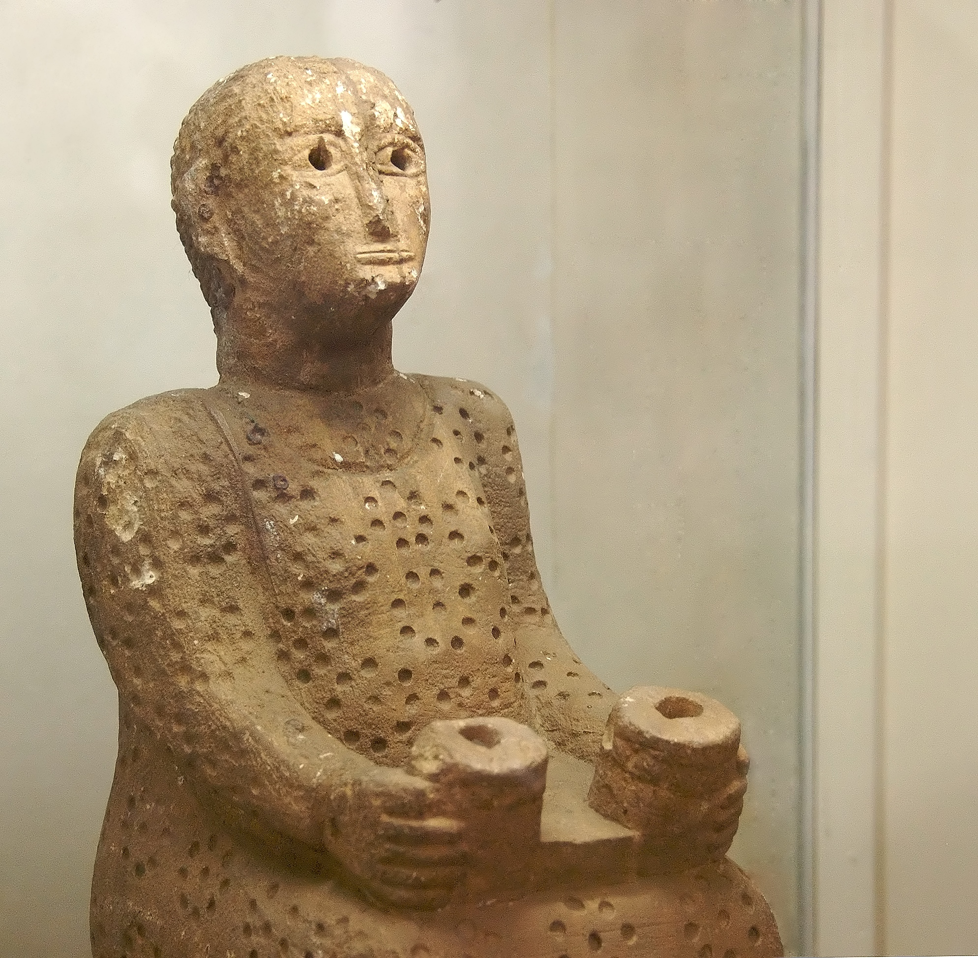 Stone statue from Addi-Galamo, Tigray Province (northern Ethiopia), 6th - 5th century BCE. I'd like to think the shallow holes originally contained beautiful inlays. The statue bears an inscription in South Arabian "For God Grants a Child to Yamanat." In the collection of the National Museum, Addis Ababa, Ethiopia. Taken without flash. (I am indebted to the blog "Will's Way" for the information about this piece; the author is more thorough about documenting his museum photos than I am.) I've complied with restrictions on the use of flash, and taken photos only when permitted by the museum.